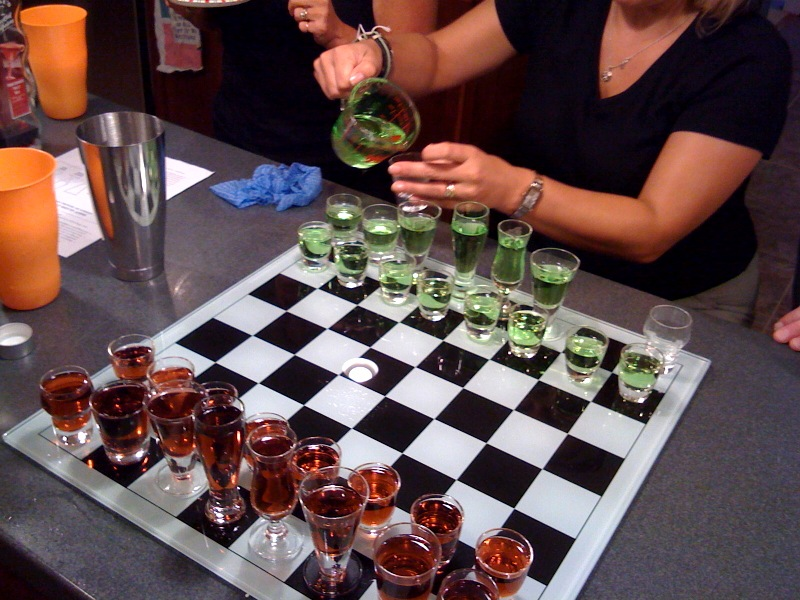 Fill glasses with whatever you like to drink and go forth and play. These were Appletini and Pomegranate mixers w/ vodka. UPDATE: Hah!! I'm highly amused; Discover Magazine's blog just used this pic in an entry taking about the difference between Beer Pong and Beer Bong. I'm glad I could add my little part to end this ages-old argument. *laughs*